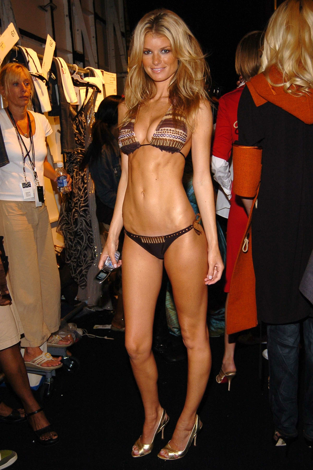 Marisa Miller backstage during Fashion for Relief benefiting victims of Hurricane Katrina.